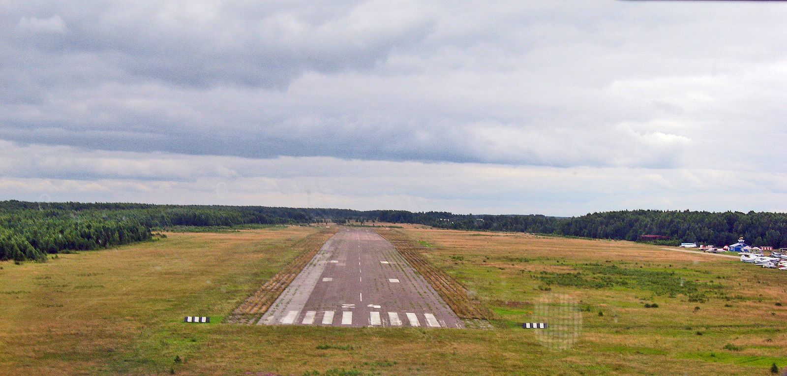 Kimry (Borki) airport runway 24